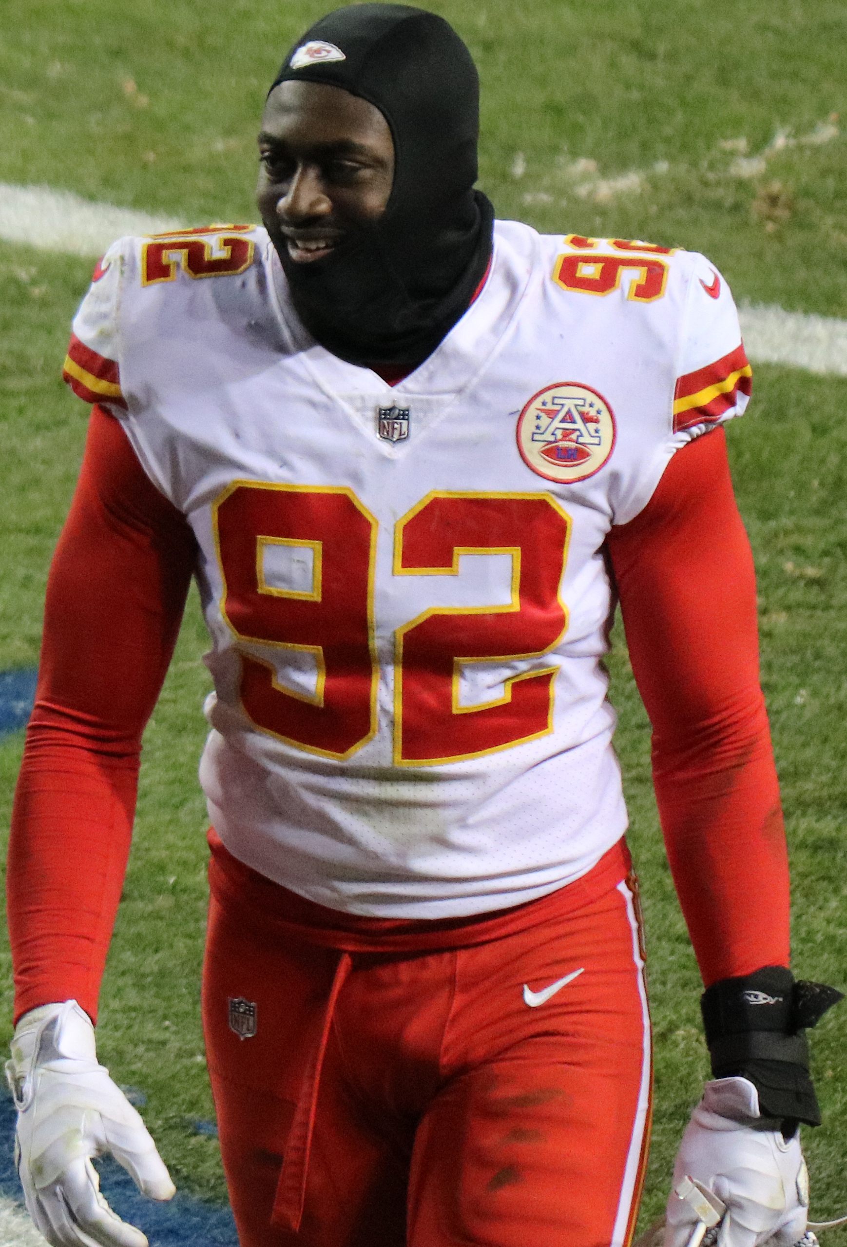 Tanoh Kpassagnon, a National Football League player.